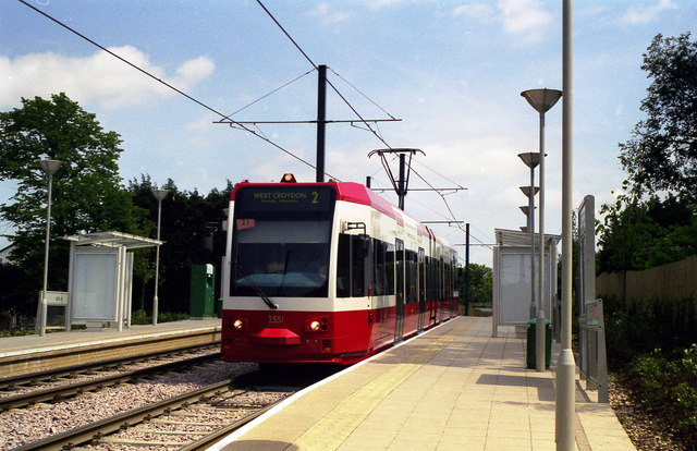 Sandilands tram stop This stop is where eastbound trams leave the road and enter private track free from motor vehicles for the rest of their journey. Here car 2551 is seen westbound for Croydon town centre.